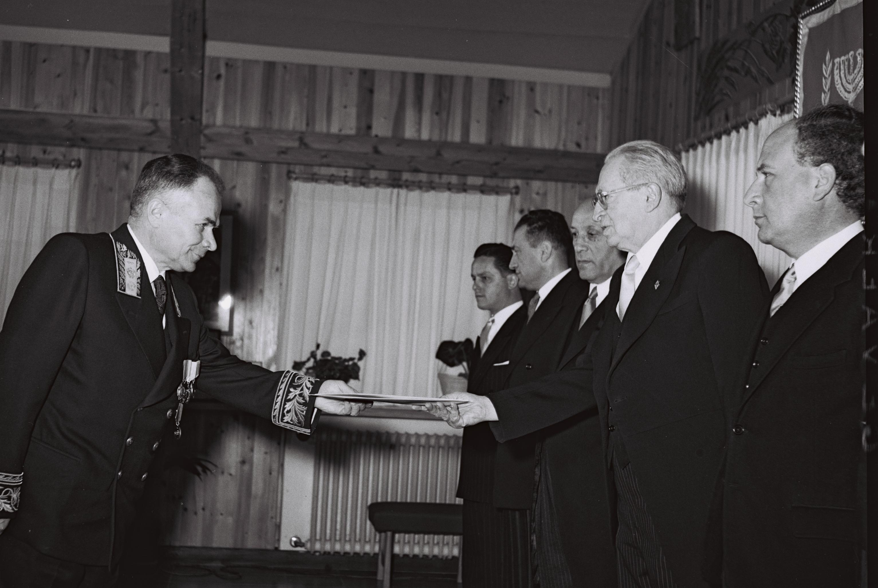 RUSSIAN AMBASSADOR MIKHAIL FEODOROV BODROV PRESENTS HIS CREDENTIALS TO PRESIDENT YITZHAK BEN ZVI AT BEIT HANASSI JERUSALEM.